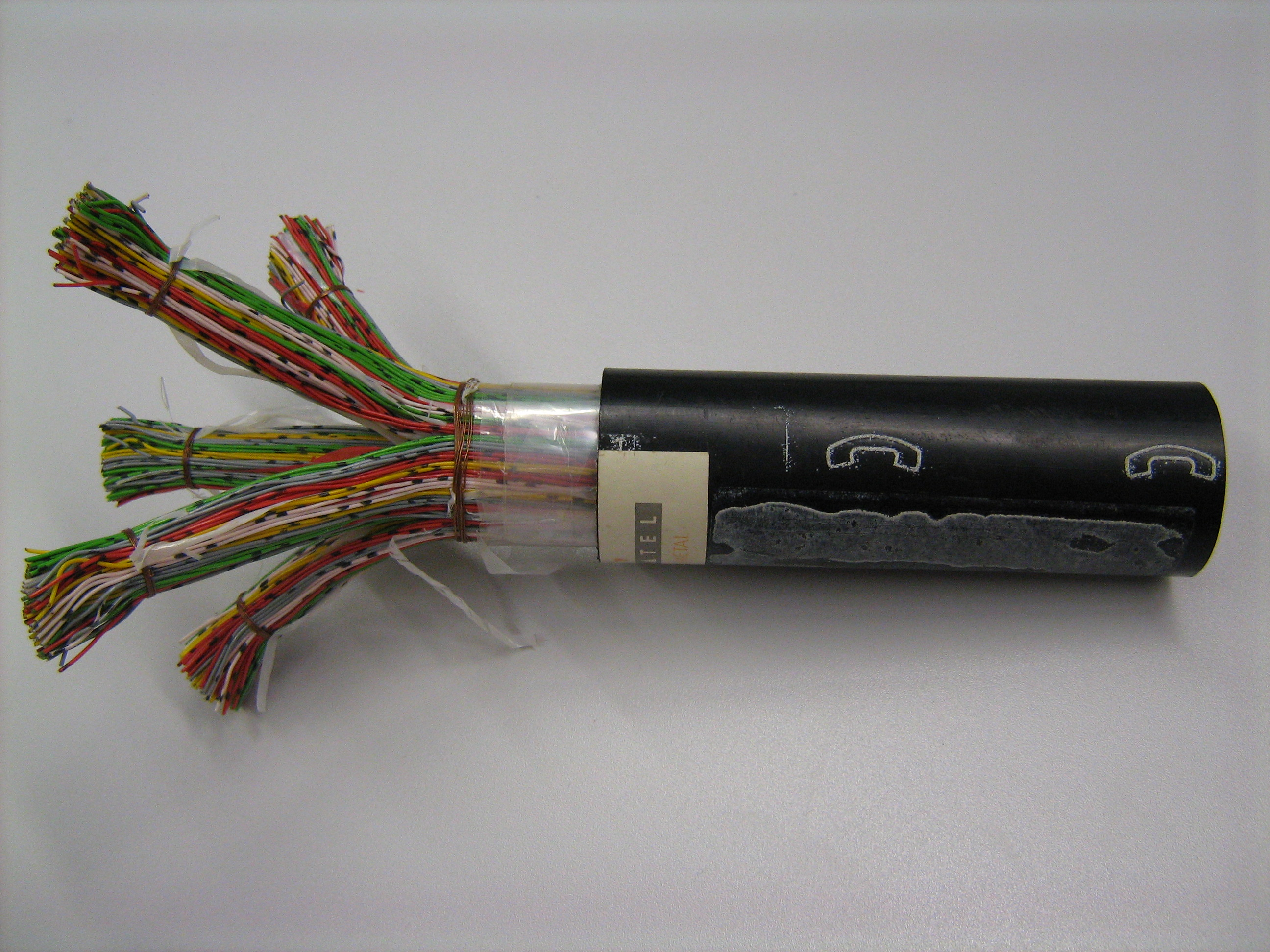 Telecommunication cable